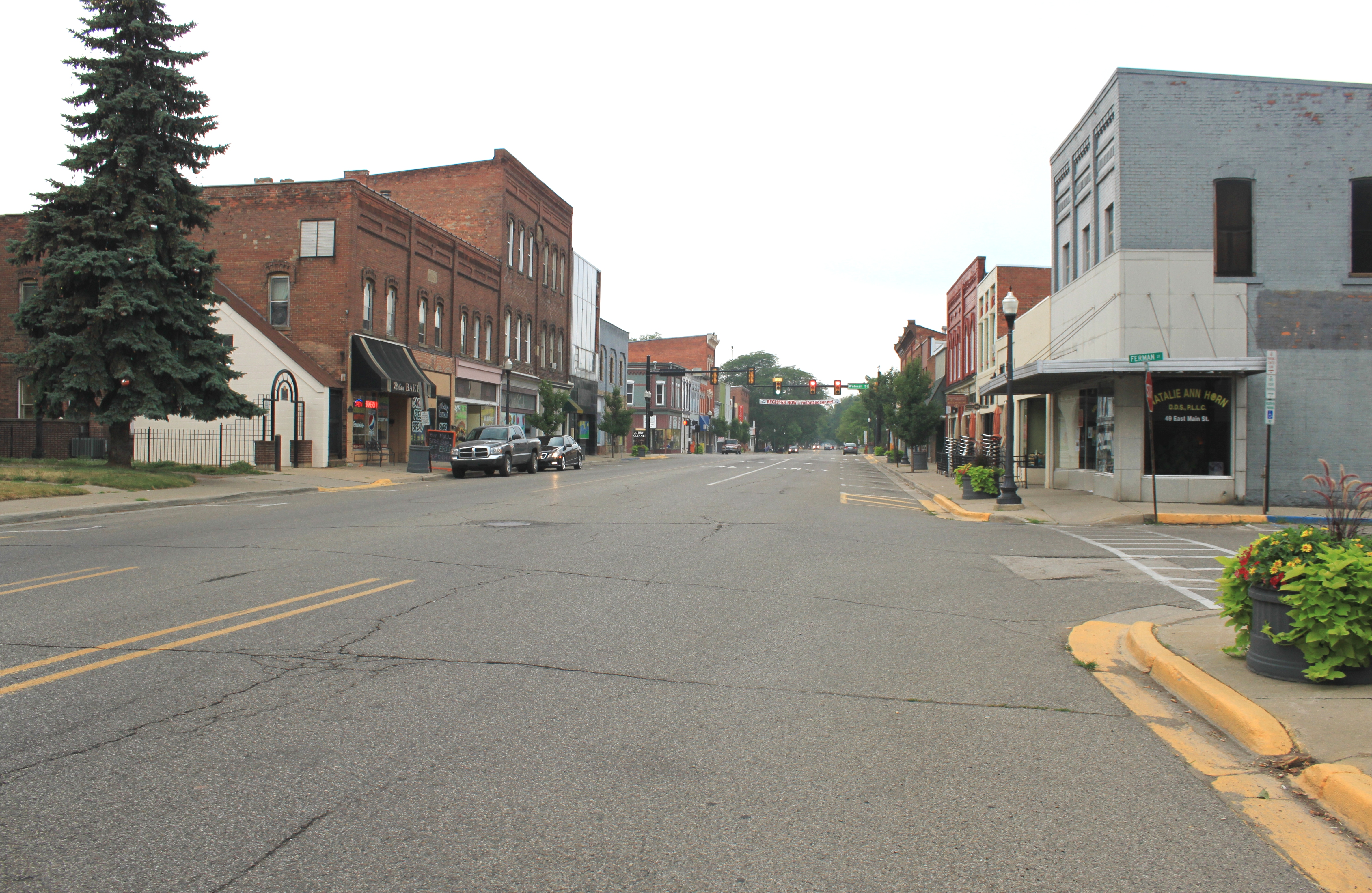 Main Street at Ferman Street, downtown Milan, Michigan. 42°05′04″N 83°40′56″W